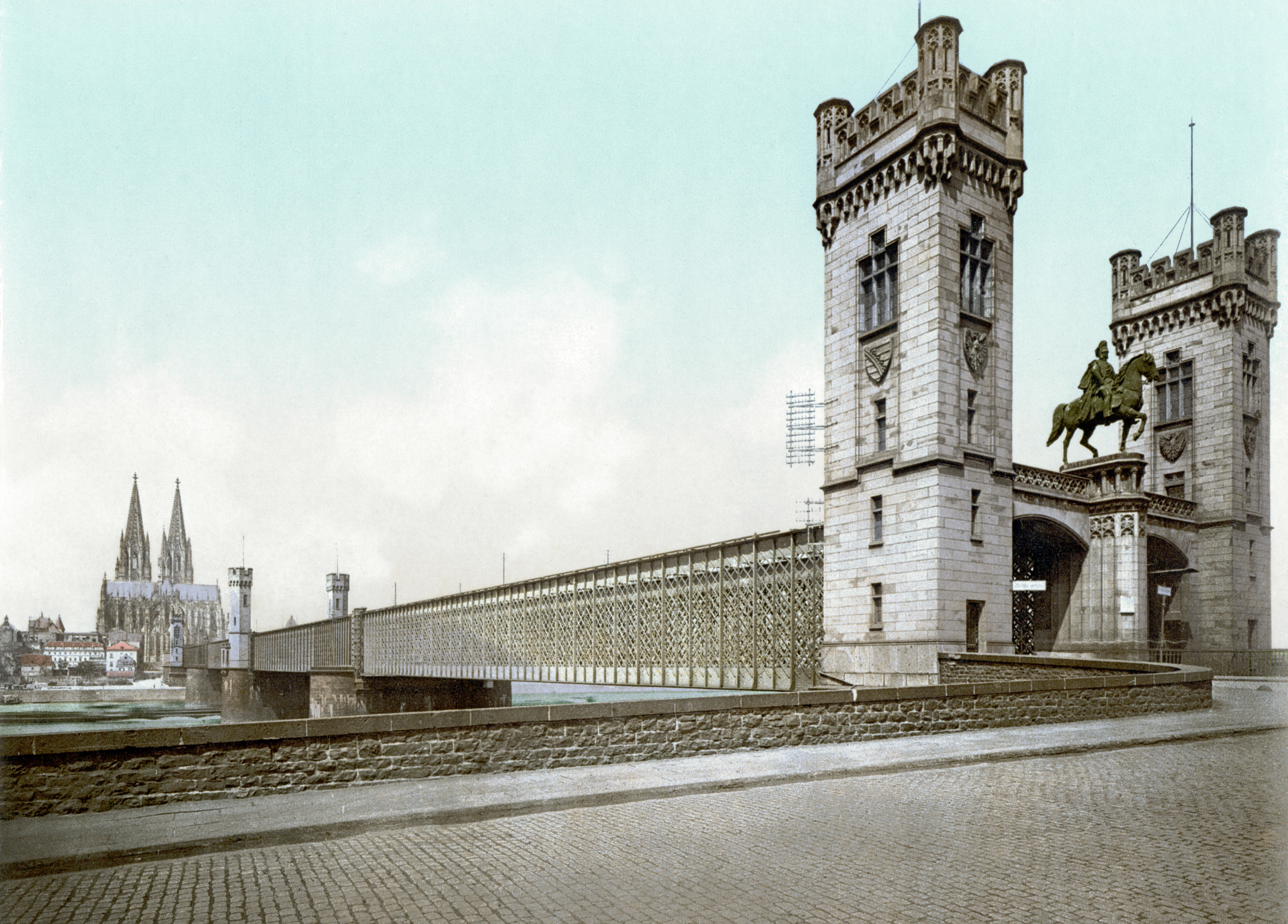 Old railway bridge in Cologne. Equestrian statue of Friedrich Wilhelm IV of Prussia by Gustav Blaeser